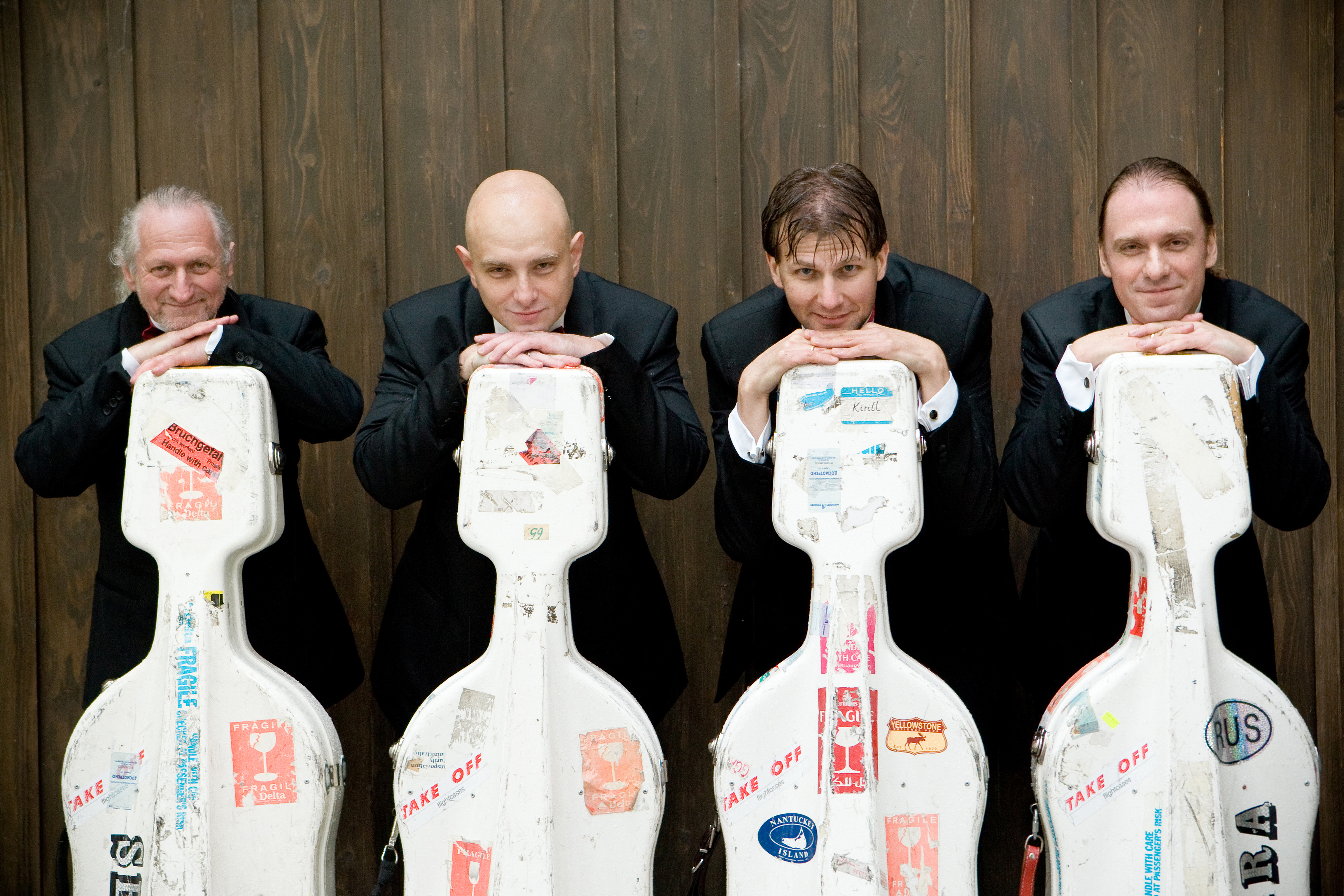 The Rastrelli Cello Quartet (from left to right): Sergio Drabkin, Mischa Degtjareff, Kirill Timofeev und Kira Kraftzoff.